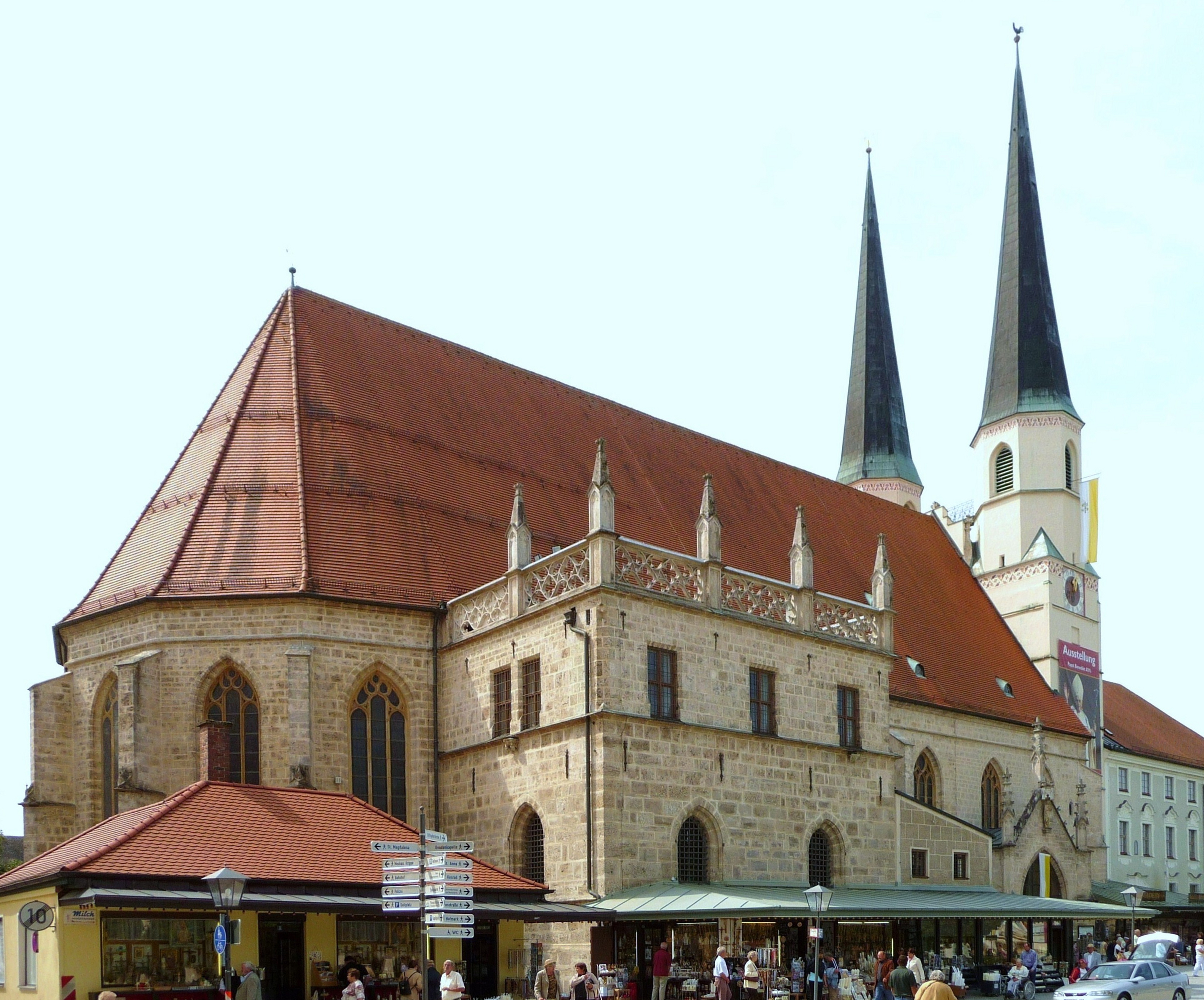 Altötting, Parish Church (former Church of the Augustinian Canons) of St Philip and James from north-east.